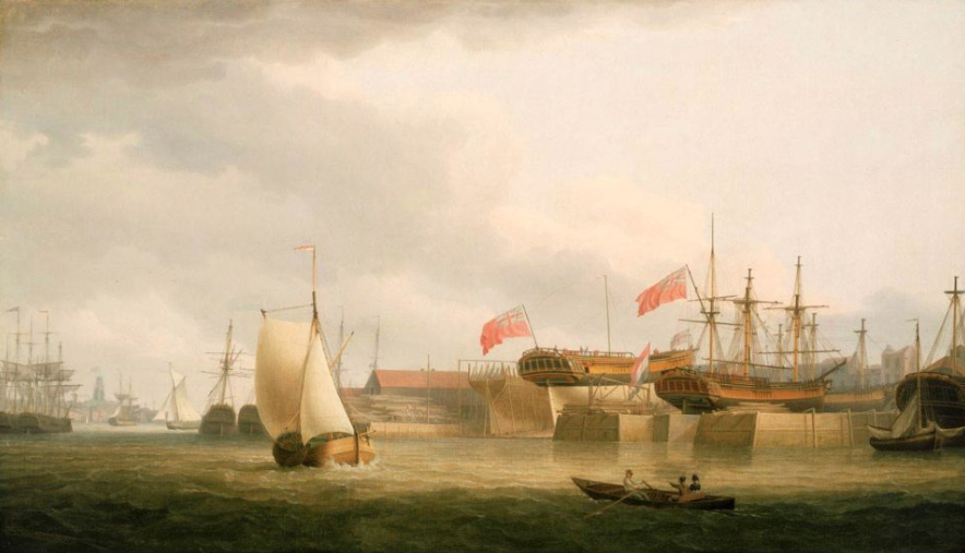 Eighteenth century view of the river Tames, with smaller boats on the river and ships being built on the southern shore